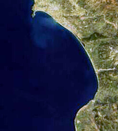 Satellite picture of Gulf of Kyparissia, Greece.